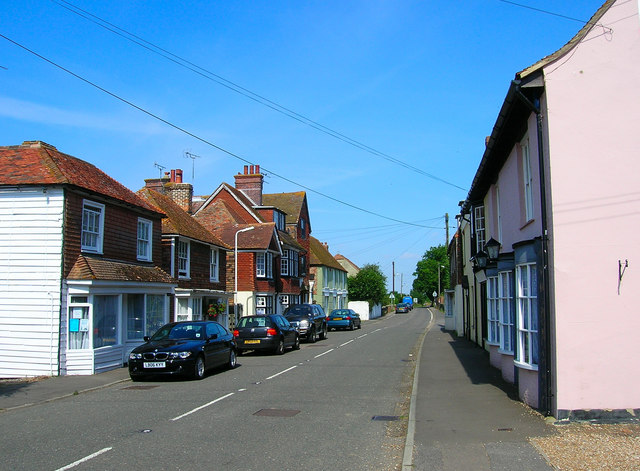 High Street, Brookland. Once part of the busy A259 the village has now been bypassed and the High Street a quiet backwater. The village is built on reclaimed marshland and originated from the 13th century onwards.